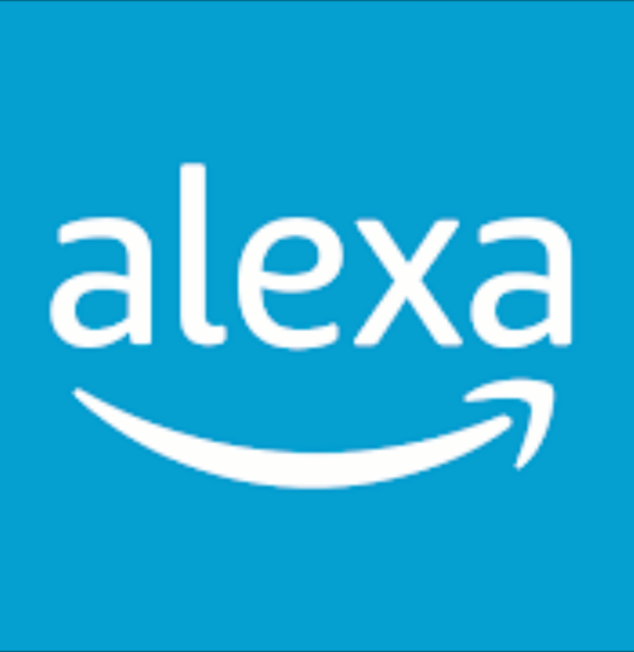 The app icon of the Amazon Alexa app on the Google Play Store